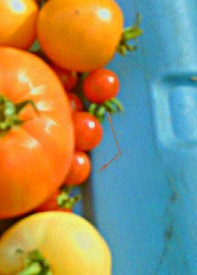 Compare the size of Matt's Wild Cherry with the Early Girl to the left.